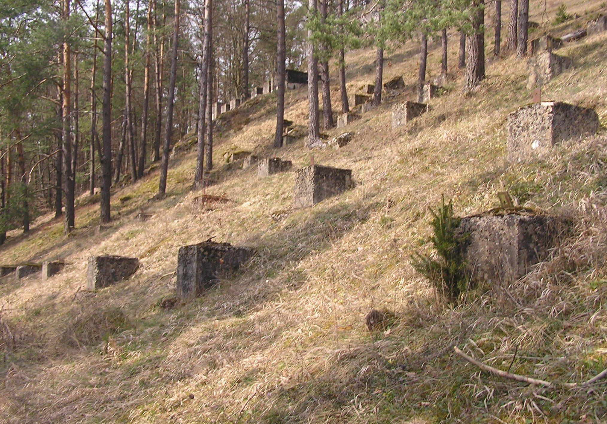 Remainders of the test construction site of the Deutsches Stadion (near Hirschbach in the Upper Palatinate)